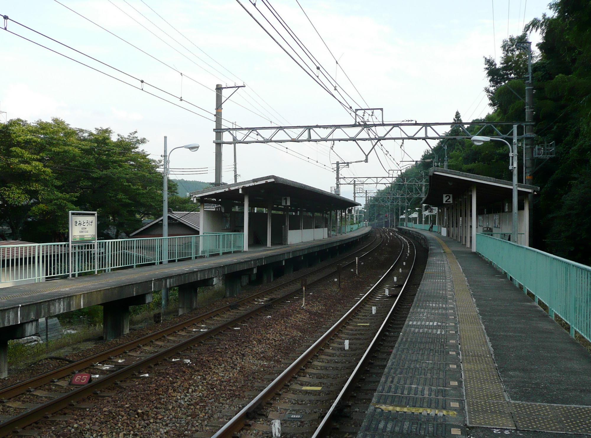 KIMITOGE Station platform,Nankai Electric Railway.